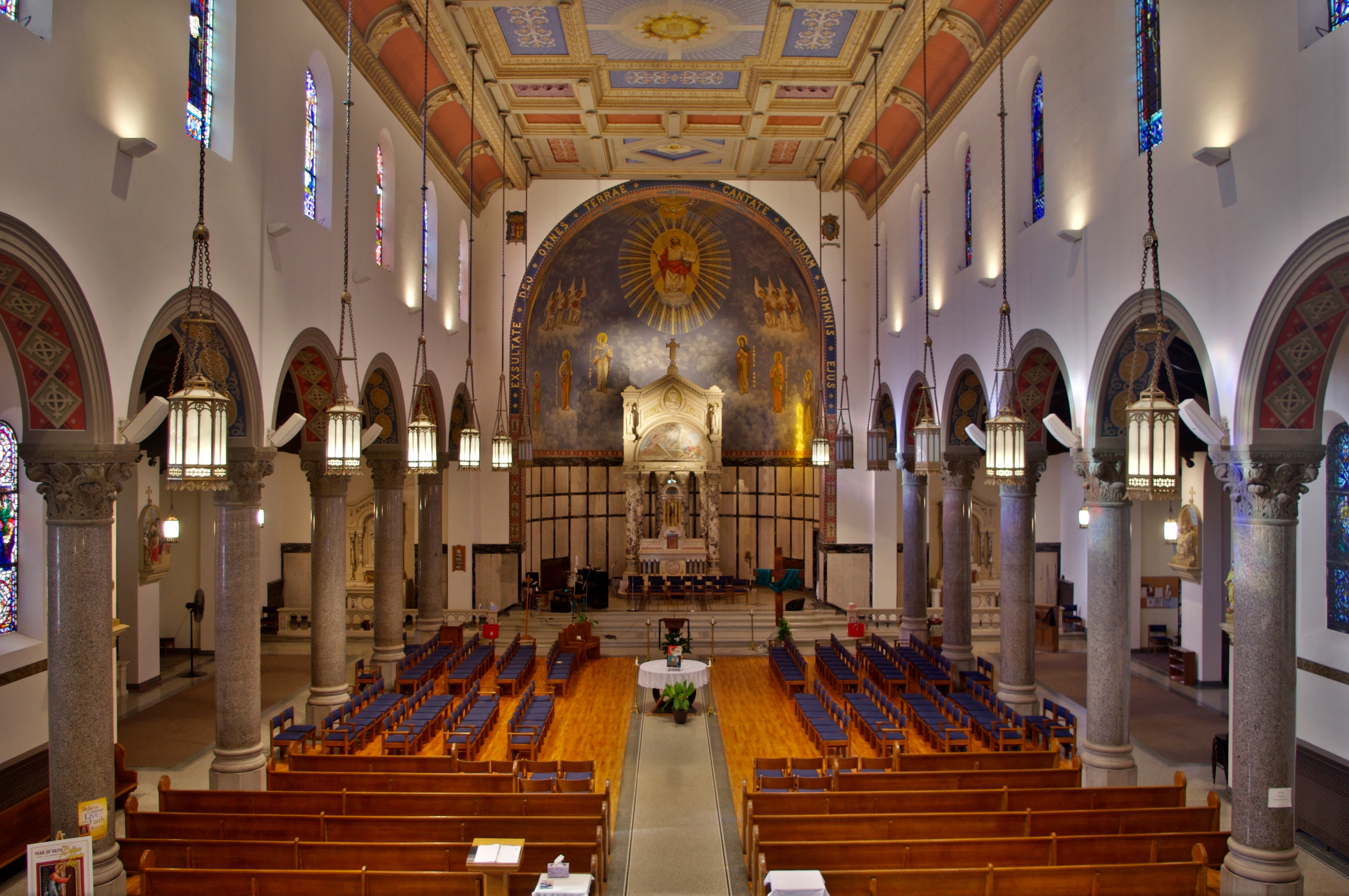 St. Martin de Porres Church (Toledo, OH) - reredos detail, angel